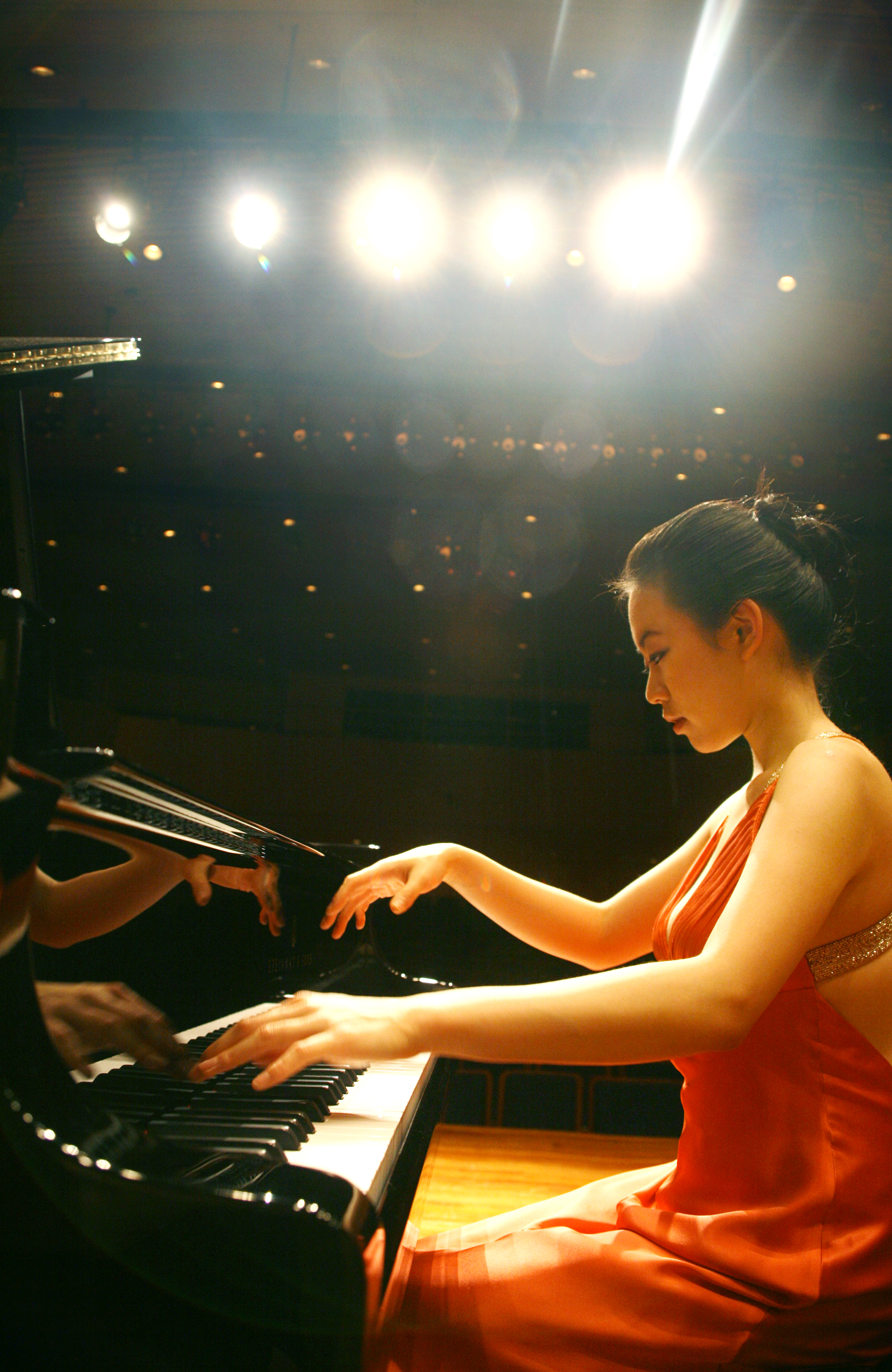 Yoonie Han performing at Sejong Arts Center